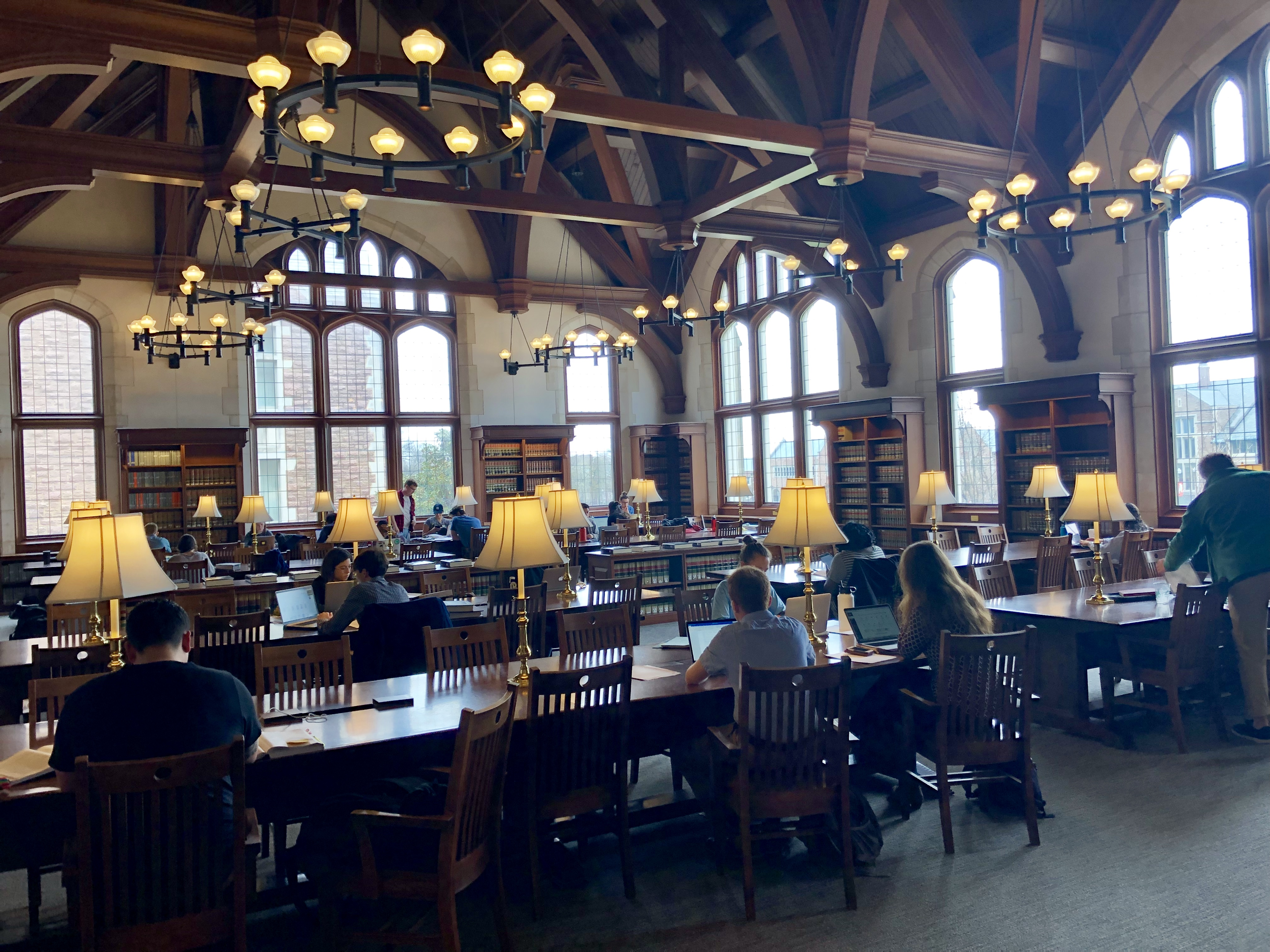 Washington University in St. Louis Law Library